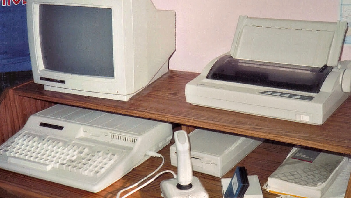 This is a Tandy 1000 HX that I (Jesster79) owned a number of years ago. My mom took this picture in 1991.